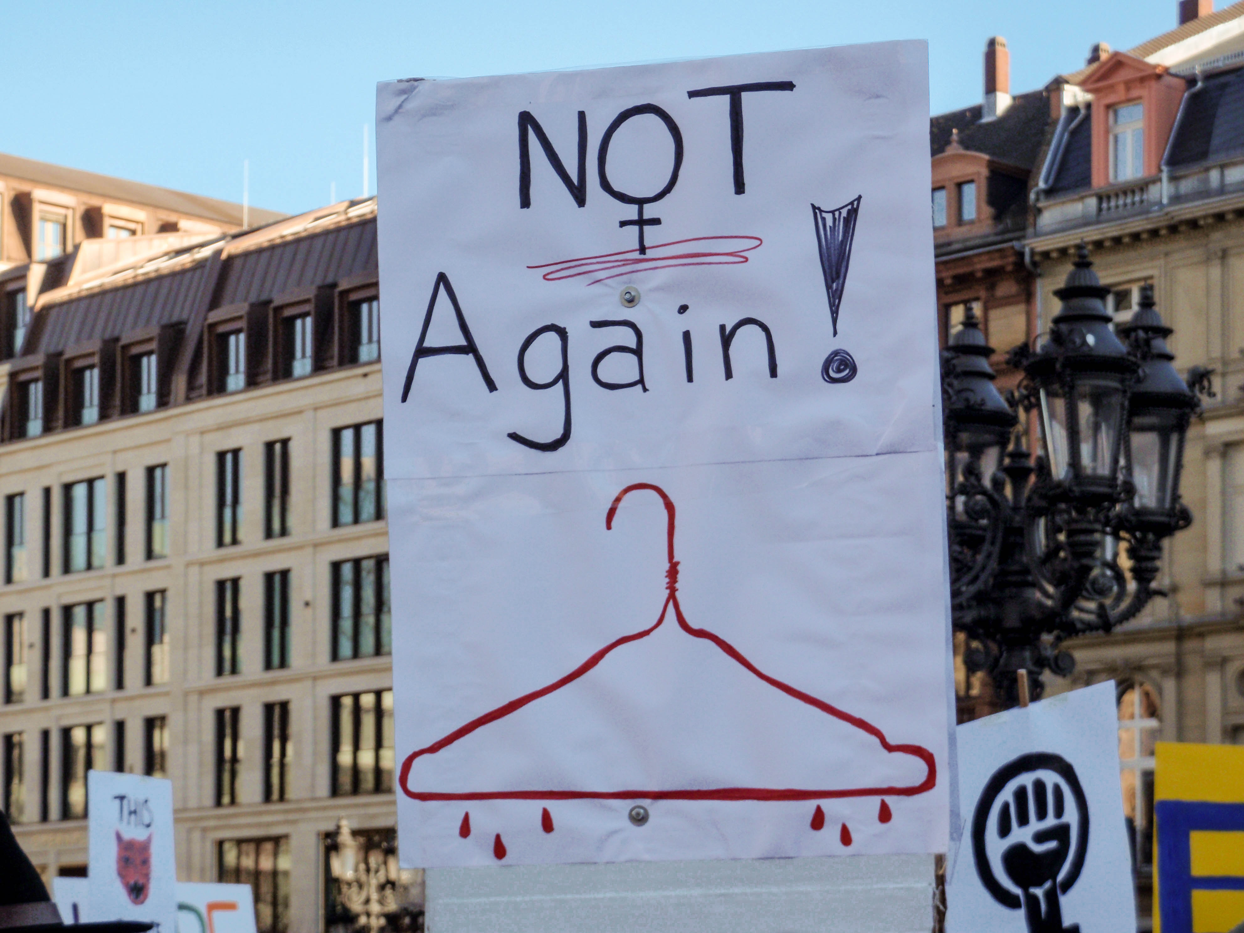 Abortion protest poster at Frankfurt Women's March.